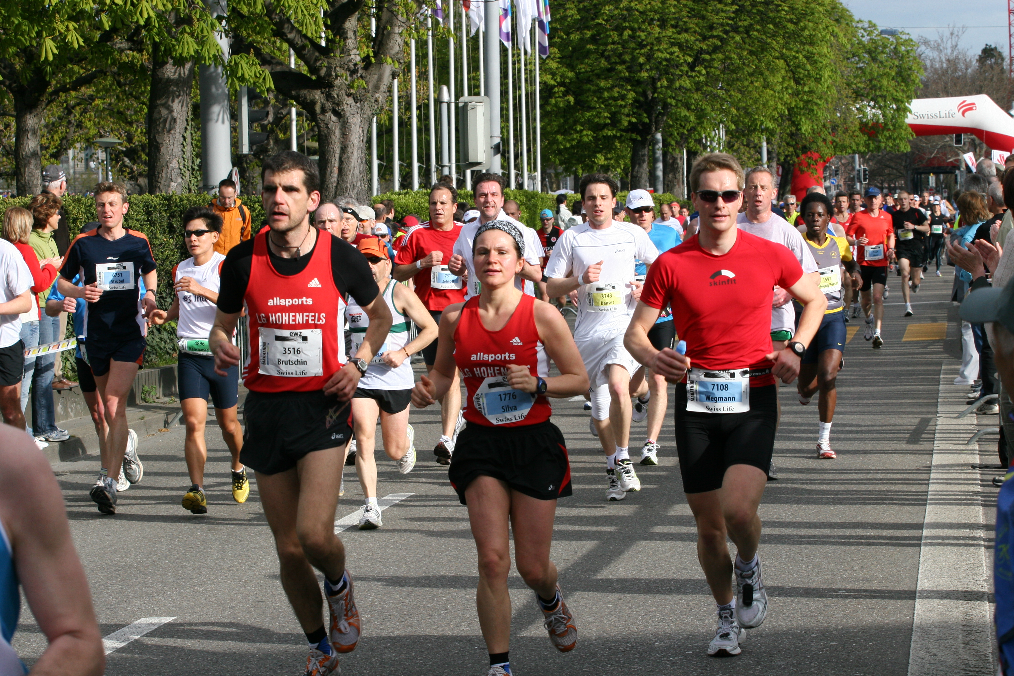 Zurich Marathon